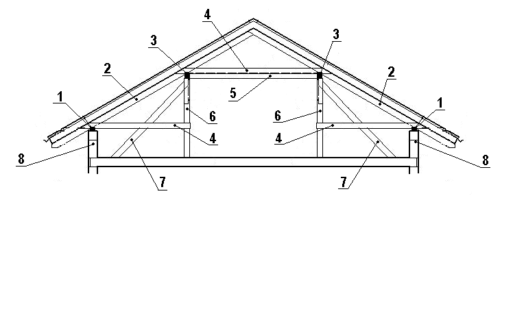 wooden framework